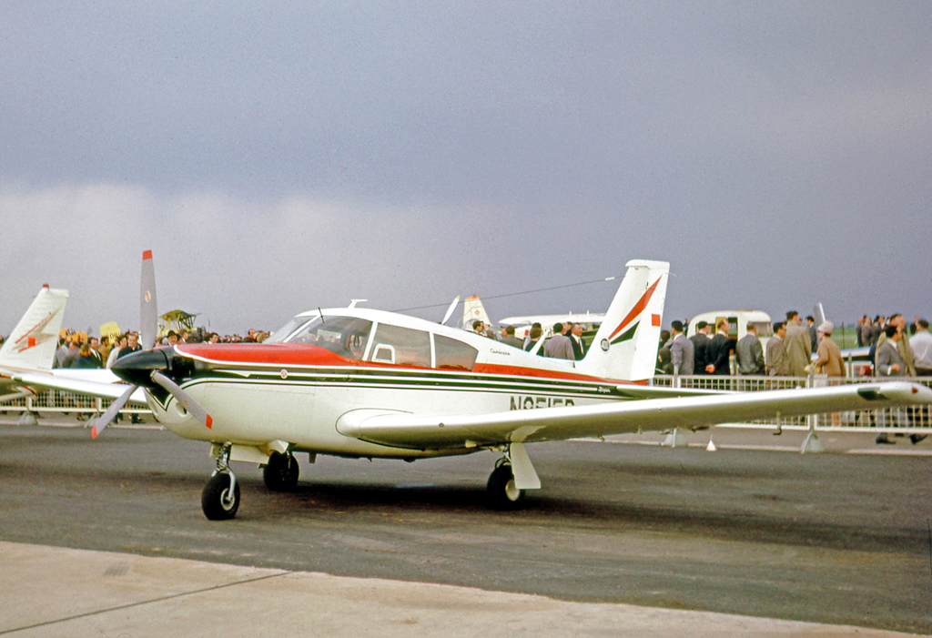 Piper PA-24 Comanche 400 N8515P 26-52 at the 1966 Hanover Air Show